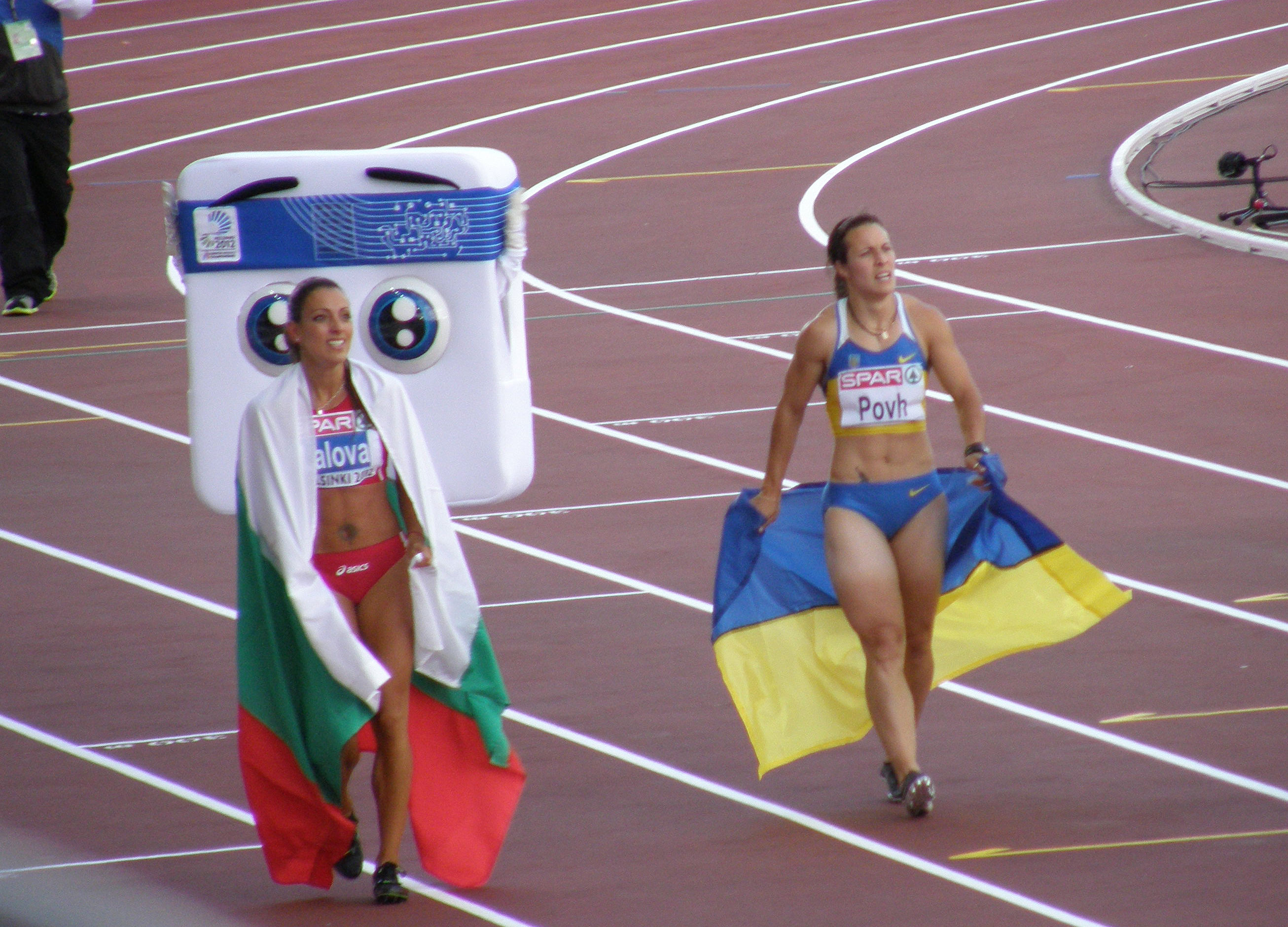 Ivet Lalova and Olesya Povh - European Athletics Champs